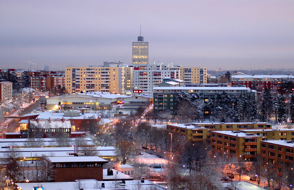 Suburb of Stockholm, Sweden. Husby, north of the city. Kista Science Tower in the background. Picture taken in January 2007 by Henryk Kotowski